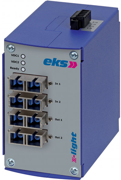 Optical Bypass